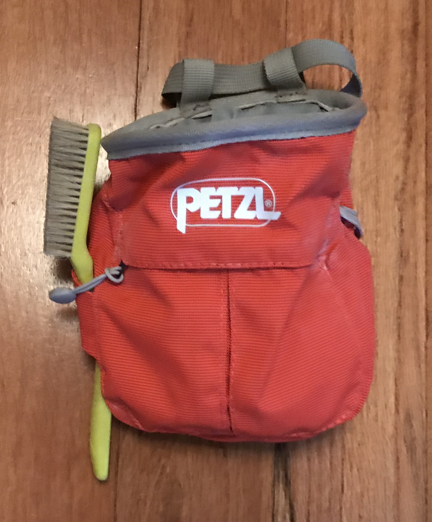 Petzl